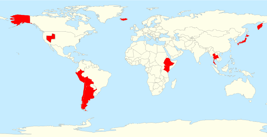 Distribution map of geysers in the world.